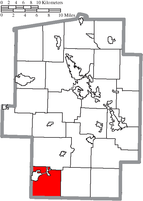 Map of the municipal and township boundaries of Tuscarawas County, Ohio, United States, as of the 2000 census, with the location of Oxford Township highlighted. Township borders are shown only in unincorporated areas in order to differentiate incorporated and unincorporated areas more clearly.